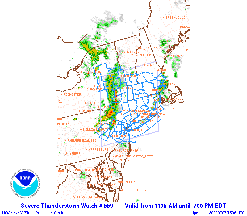 SEL9 0- URGENT - IMMEDIATE BROADCAST REQUESTED SEVERE THUNDERSTORM WATCH NUMBER 559 NWS STORM PREDICTION CENTER NORMAN OK 1105 AM EDT TUE JUL 7 2009 THE NWS STORM PREDICTION CENTER HAS ISSUED A SEVERE THUNDERSTORM WATCH FOR PORTIONS OF CONNECTICUT MUCH OF MASSACHUSETTS SOUTHERN NEW HAMPSHIRE NORTHERN NEW JERSEY EASTERN NEW YORK EASTERN PENNSYLVANIA RHODE ISLAND SOUTHERN VERMONT COASTAL WATERS EFFECTIVE THIS TUESDAY MORNING AND EVENING FROM 1105 AM UNTIL 700 PM EDT. HAIL TO 2 INCHES IN DIAMETER...THUNDERSTORM WIND GUSTS TO 70 MPH...AND DANGEROUS LIGHTNING ARE POSSIBLE IN THESE AREAS. THE SEVERE THUNDERSTORM WATCH AREA IS APPROXIMATELY ALONG AND 100 STATUTE MILES EAST AND WEST OF A LINE FROM 40 MILES EAST NORTHEAST OF GLENS FALLS NEW YORK TO 30 MILES SOUTH SOUTHWEST OF NEW YORK CITY NEW YORK. FOR A COMPLETE DEPICTION OF THE WATCH SEE THE ASSOCIATED WATCH OUTLINE UPDATE (WOUS64 KWNS WOU9). REMEMBER...A SEVERE THUNDERSTORM WATCH MEANS CONDITIONS ARE FAVORABLE FOR SEVERE THUNDERSTORMS IN AND CLOSE TO THE WATCH AREA. PERSONS IN THESE AREAS SHOULD BE ON THE LOOKOUT FOR THREATENING WEATHER CONDITIONS AND LISTEN FOR LATER STATEMENTS AND POSSIBLE WARNINGS. SEVERE THUNDERSTORMS CAN AND OCCASIONALLY DO PRODUCE TORNADOES. DISCUSSION...THUNDERSTORMS ARE EXPECTED TO INTENSIFY THIS AFTERNOON ACROSS PARTS OF NY/PA AND SOUTHERN NEW ENGLAND...IN EXIT REGION OF APPROACHING UPPER JET. BREAKS IN THE CLOUDS COUPLED WITH STEEP LAPSE RATES AND COOL TEMPERATURES ALOFT WILL YIELD MODERATE INSTABILITY FAVORABLE FOR LARGE HAIL IN STRONGER CELLS. AVIATION...A FEW SEVERE THUNDERSTORMS WITH HAIL SURFACE AND ALOFT TO 2 INCHES. EXTREME TURBULENCE AND SURFACE WIND GUSTS TO 60 KNOTS. A FEW CUMULONIMBI WITH MAXIMUM TOPS TO 450. MEAN STORM MOTION VECTOR 27030. ...HART